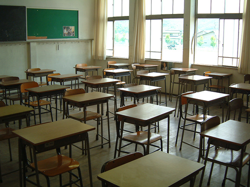 A classroom in a Japanese high schoolTakahata highschool 10